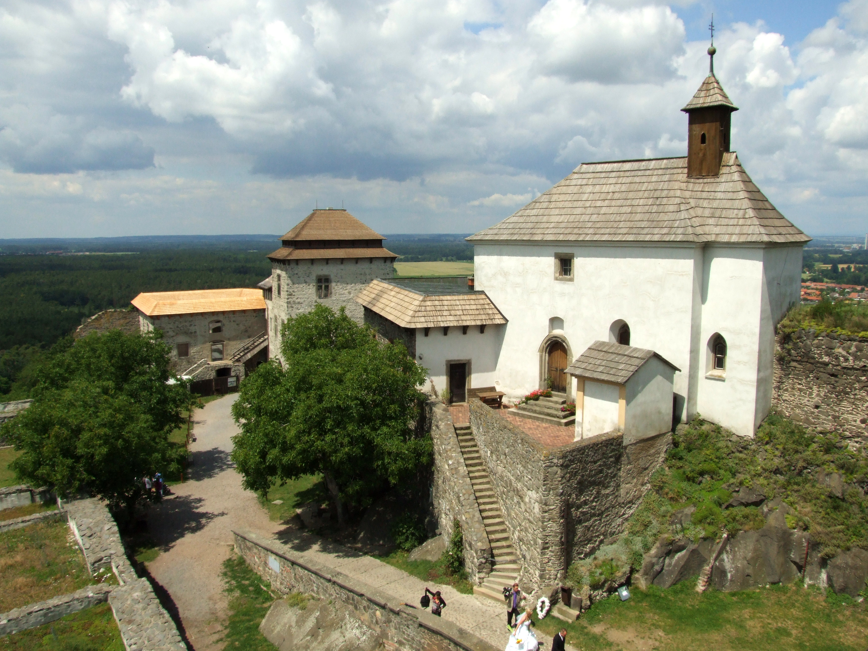 Kunětická hora Castle, Pardubice District, Czech Republic. Chapel of Saint Catherine.